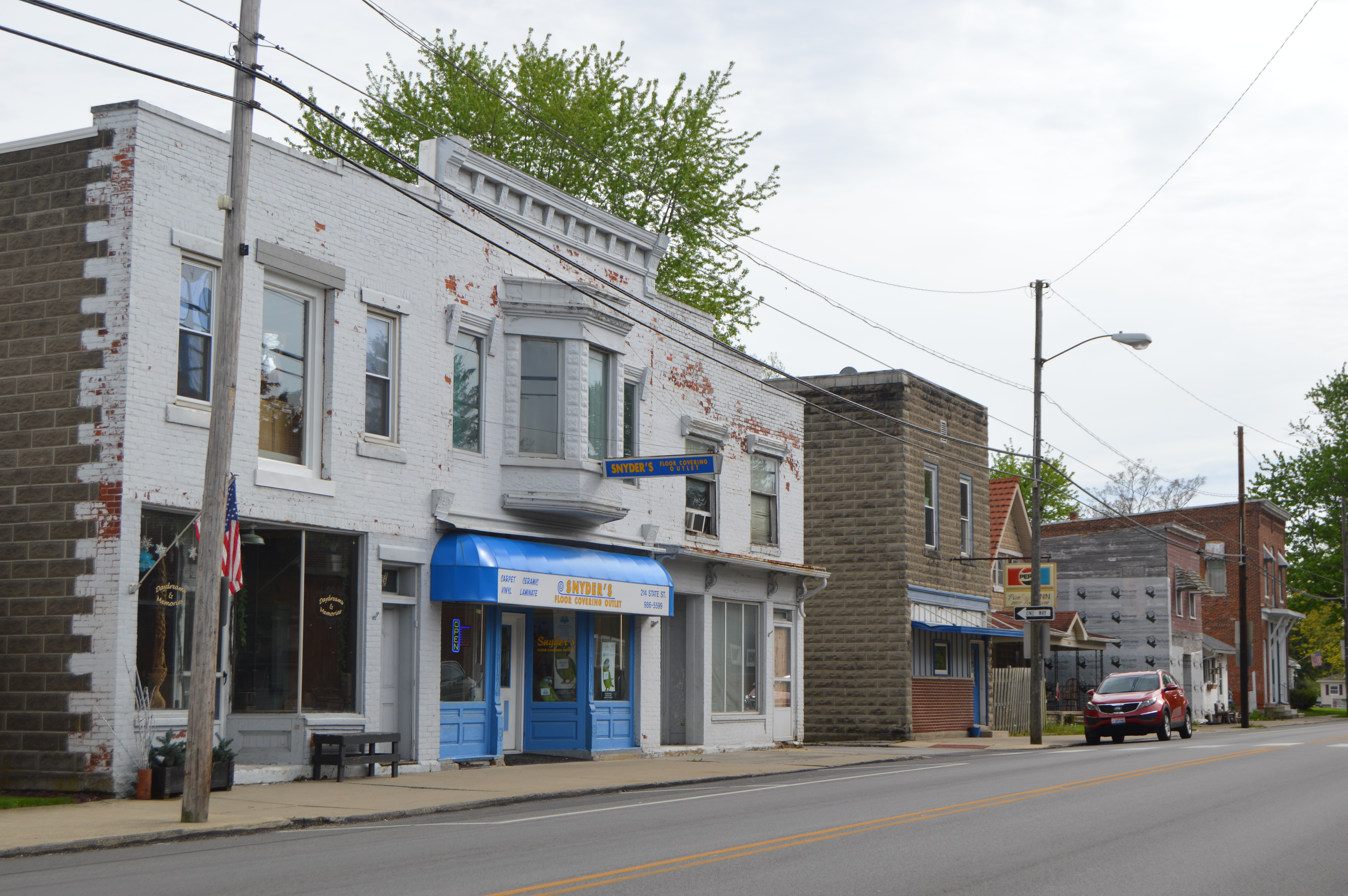 Buildings on the southeastern side of the 200 block of State Street (State Route 12) in the commercial district of Bettsville, Ohio, United States.